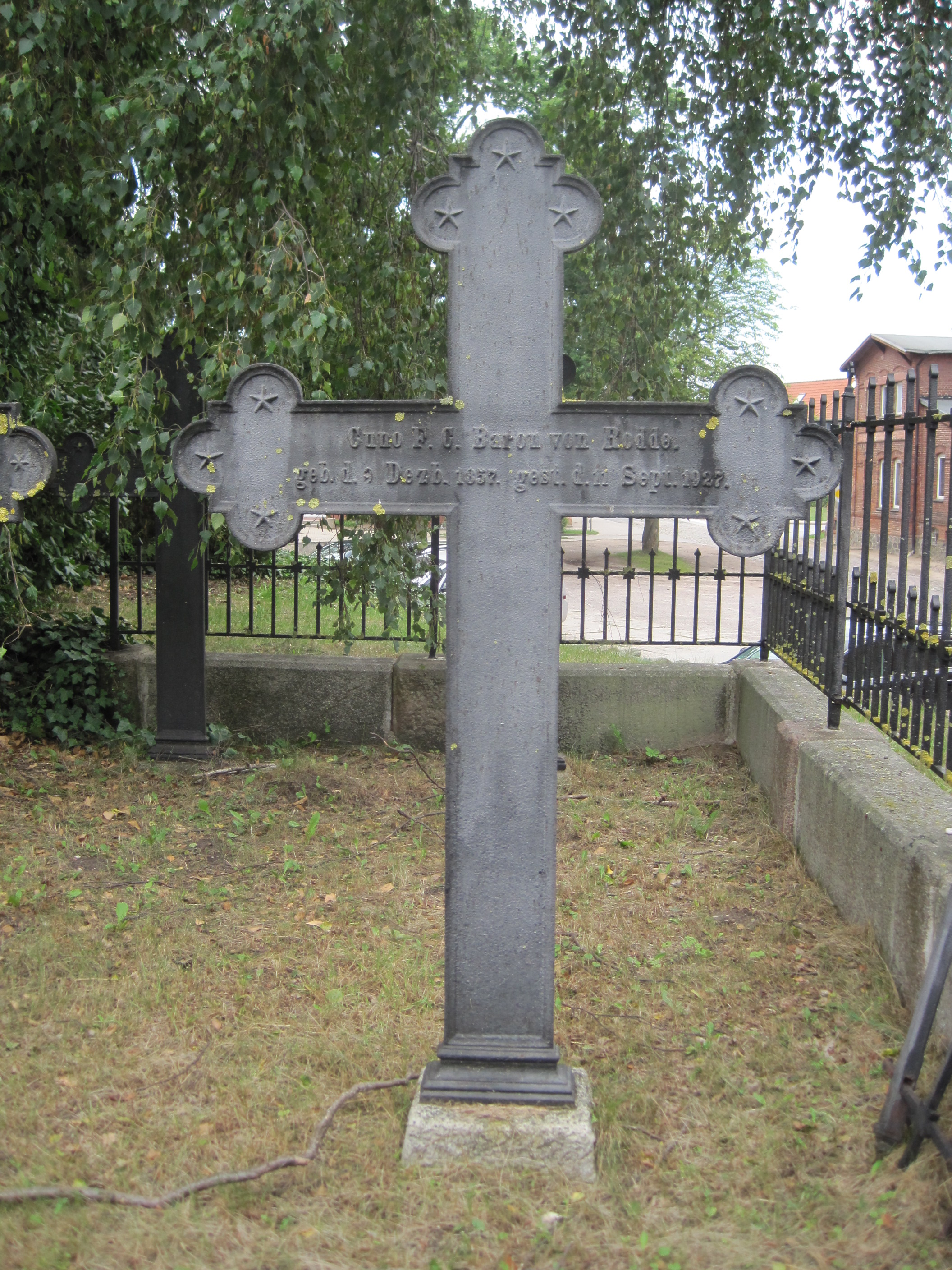 Grave of Cuno von Rodde (1857-1927) in the cemetery of Tarnow church near Bützow in Mecklenburg.